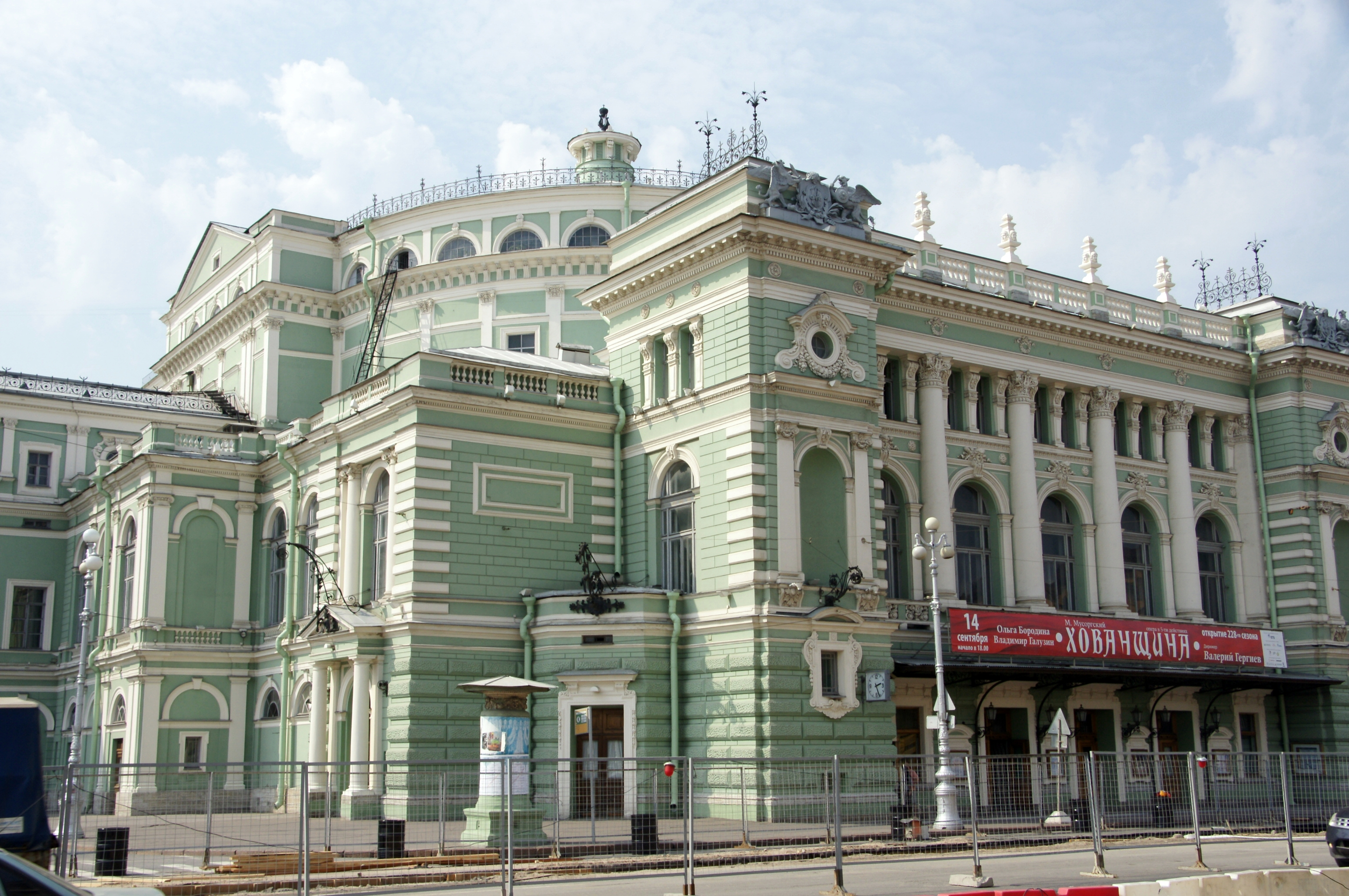 Mariinsky Theatre